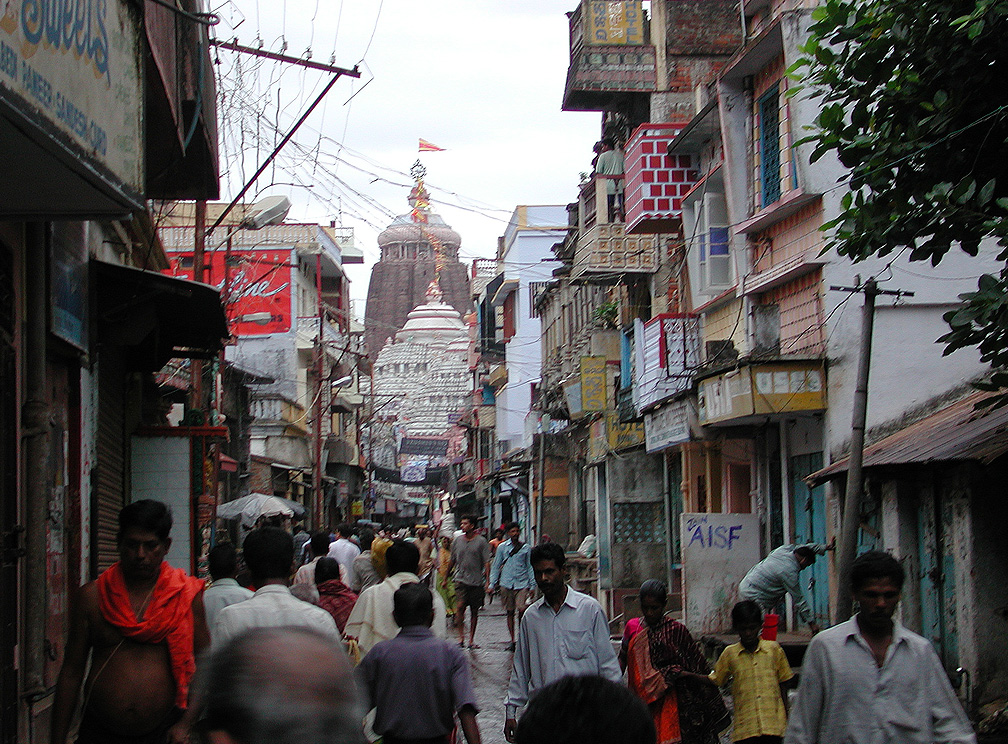 a lane in puri to Jagannatha temple